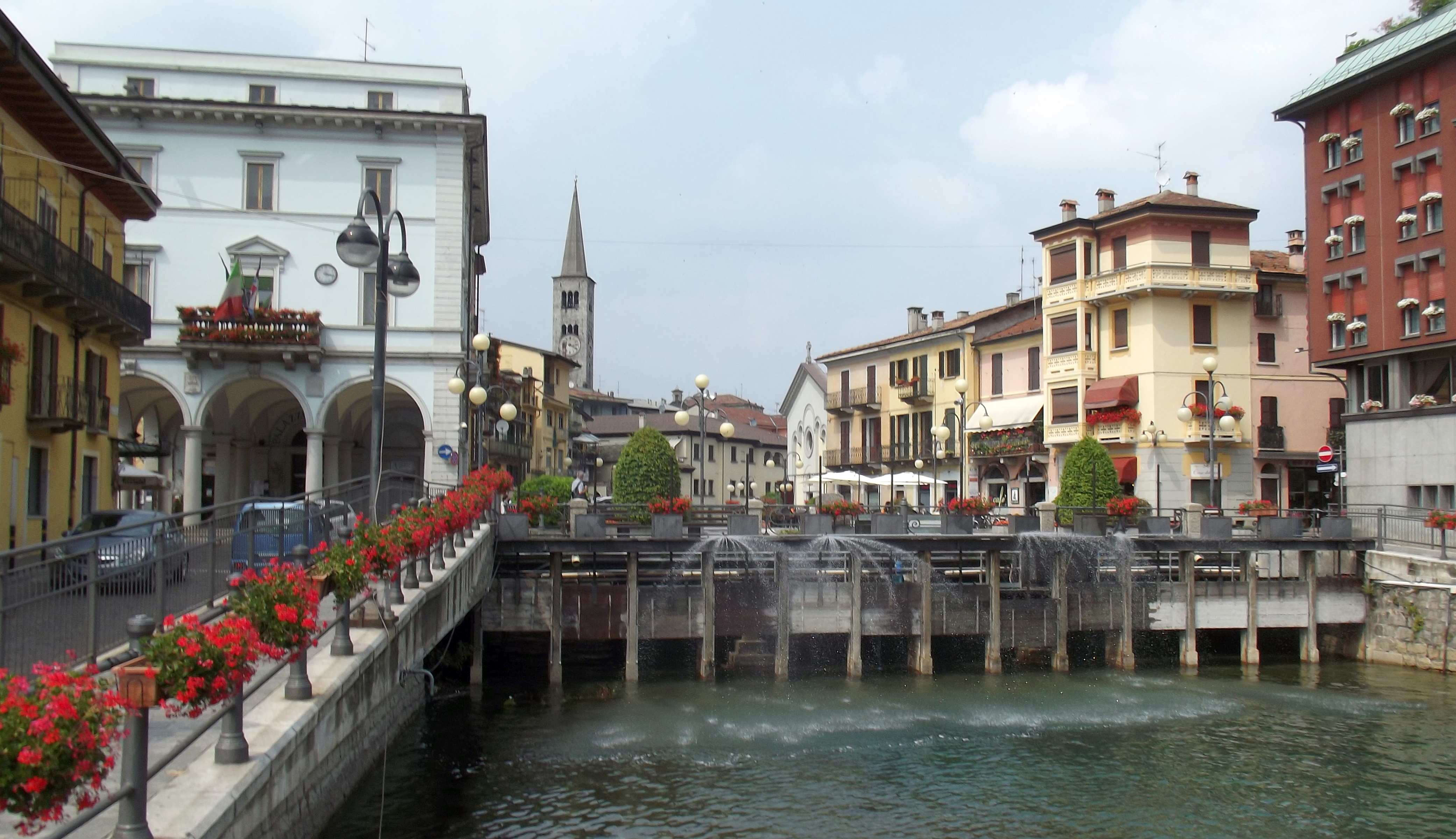 Nigoglia: sluices in Omegna